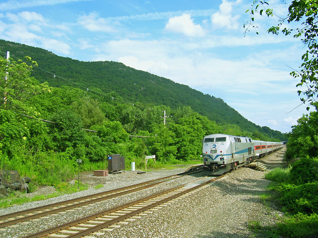 Breakneck Ridge station photographed from the stairs down to the tracks from the overpass